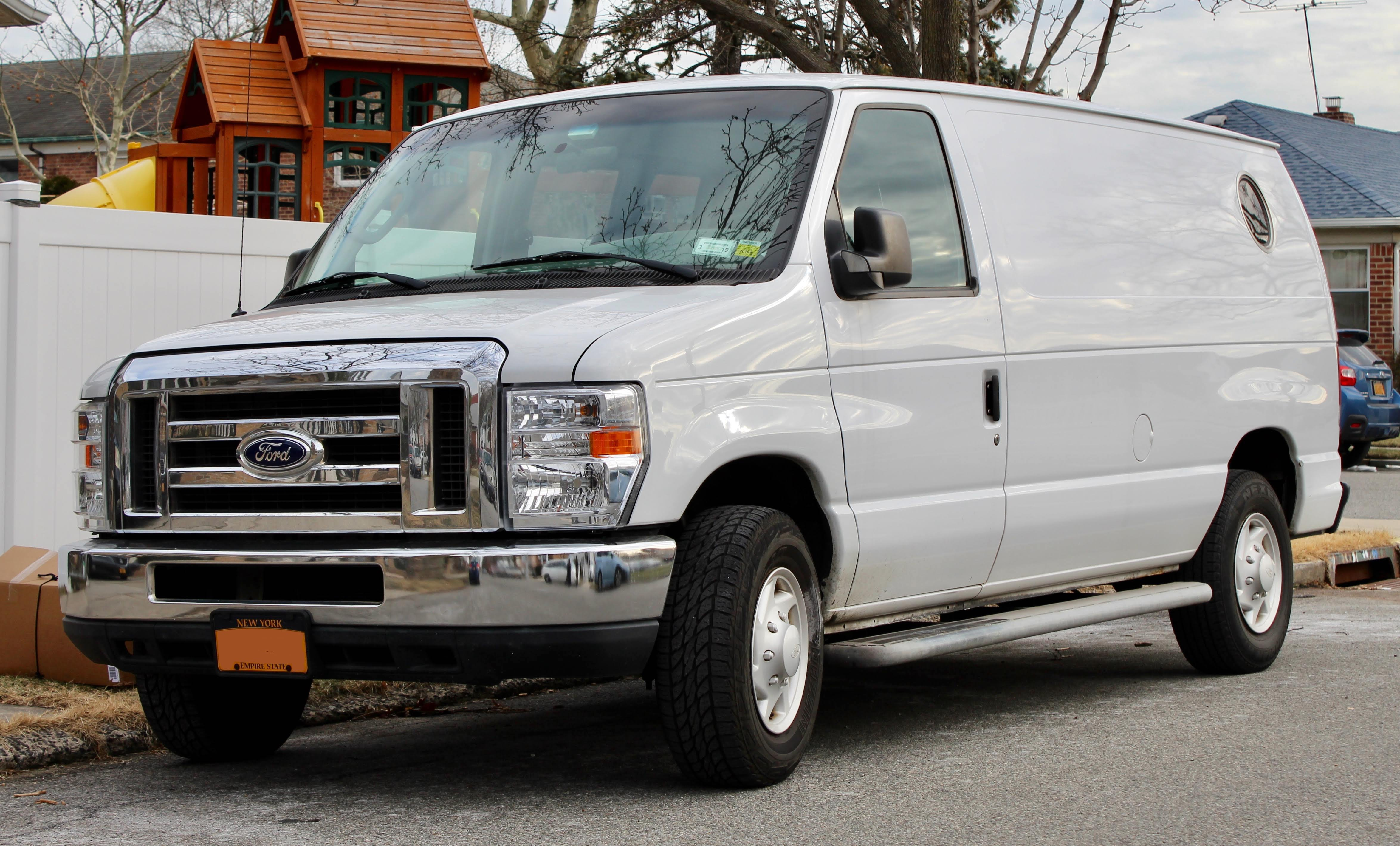 Photographed in Queens, New York, USA